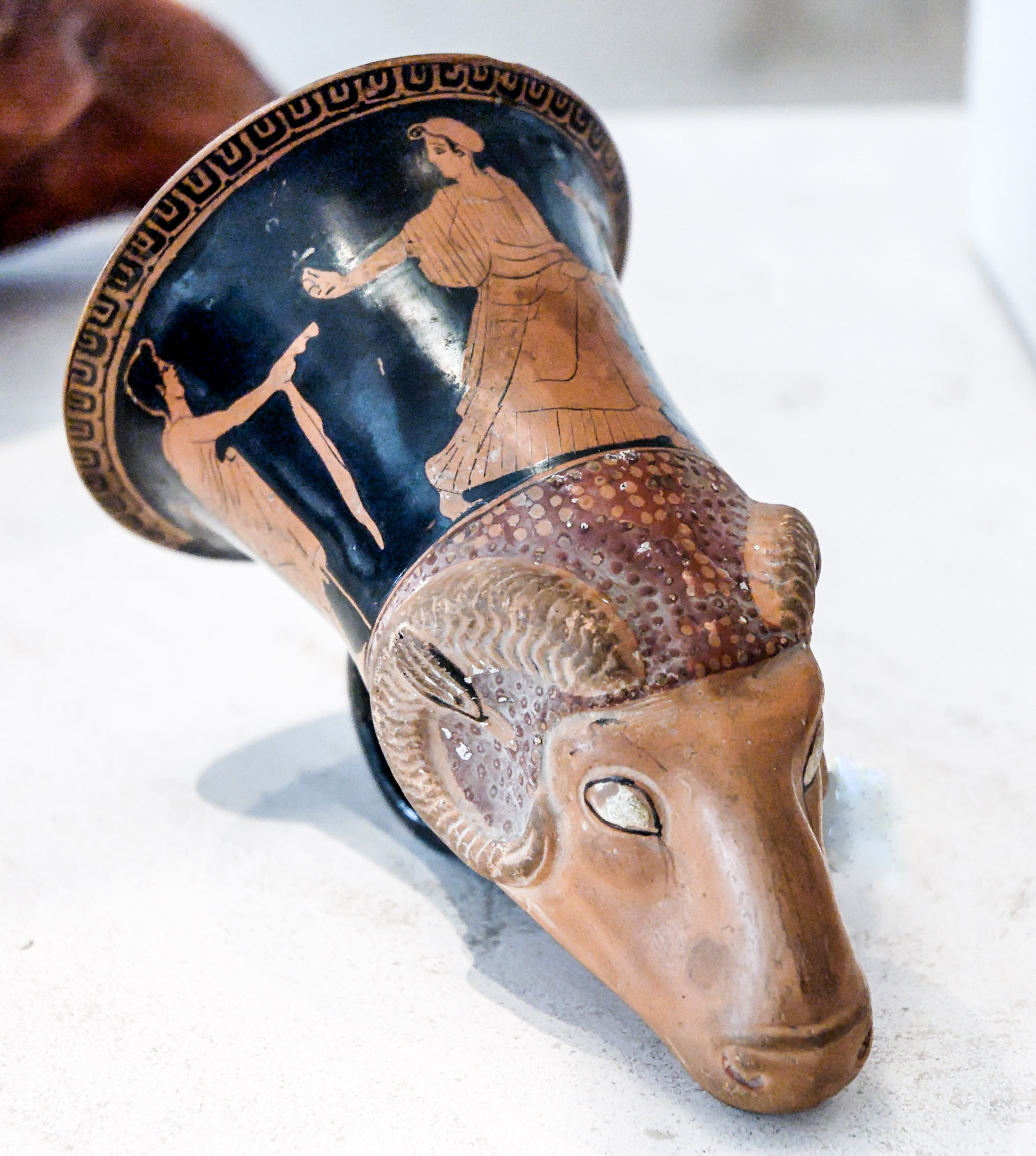 Two draped ephebes surrounding a fleeing woman. Attic red-figure ram's head rhyton, ca. 470–460 BC. From Nola?